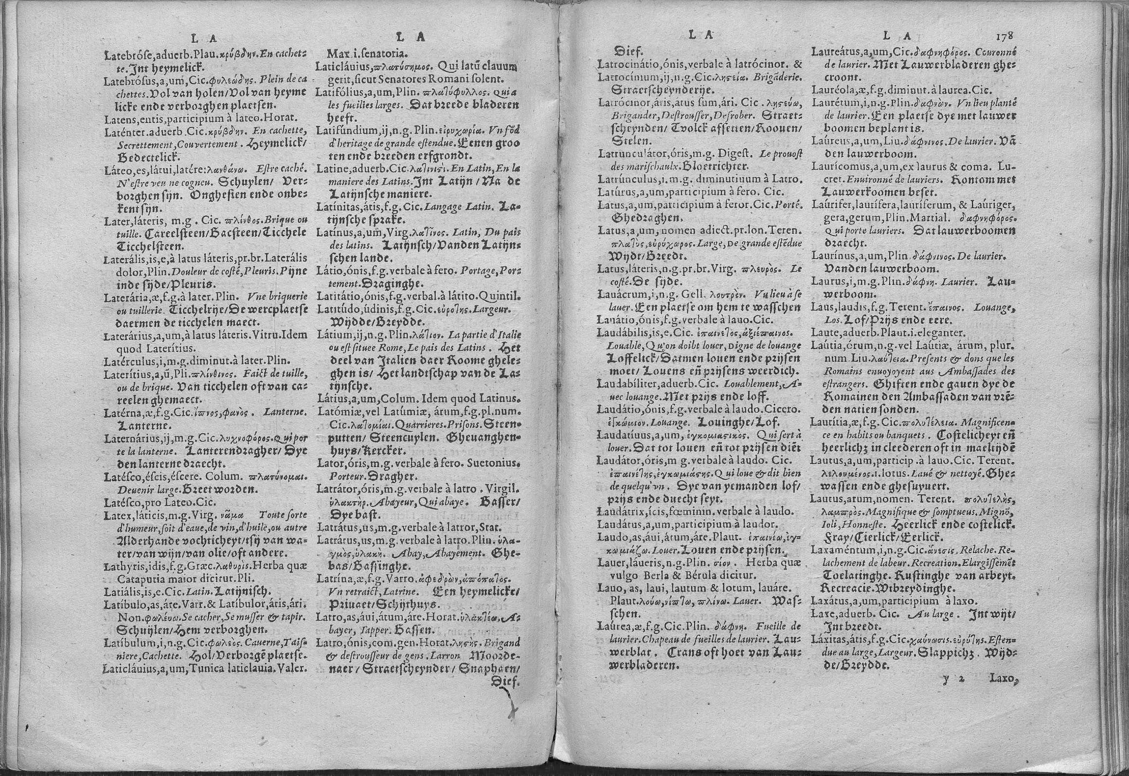 Cornelis Kiliaan: Dictionarium Tetraglotton seu Voces Latinae Omnes, pages LA Latebrose - Laxitas 178.